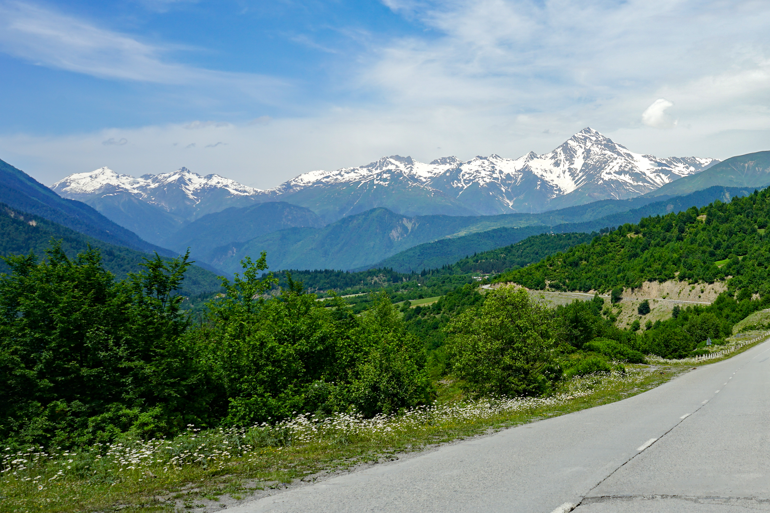 Shdavleri Mountain Range (view from the east), Svaneti, Georgia. The highest summit is Mt. Shdavleri (3,995 m) and the leftmost summit Mt. Utviri (3,271 m).